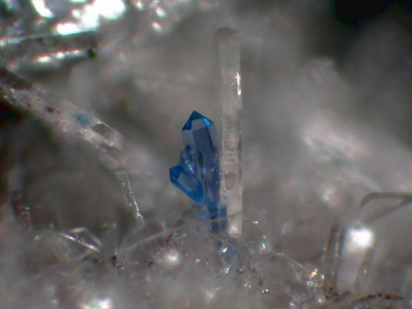 Jeremejevite crystals hidden behind a Sanidine tabular, but much to blue to overlook (image width: 1,5mm) - Locality: Wannenköpfe, Ochtendung, Eifel region, Germany